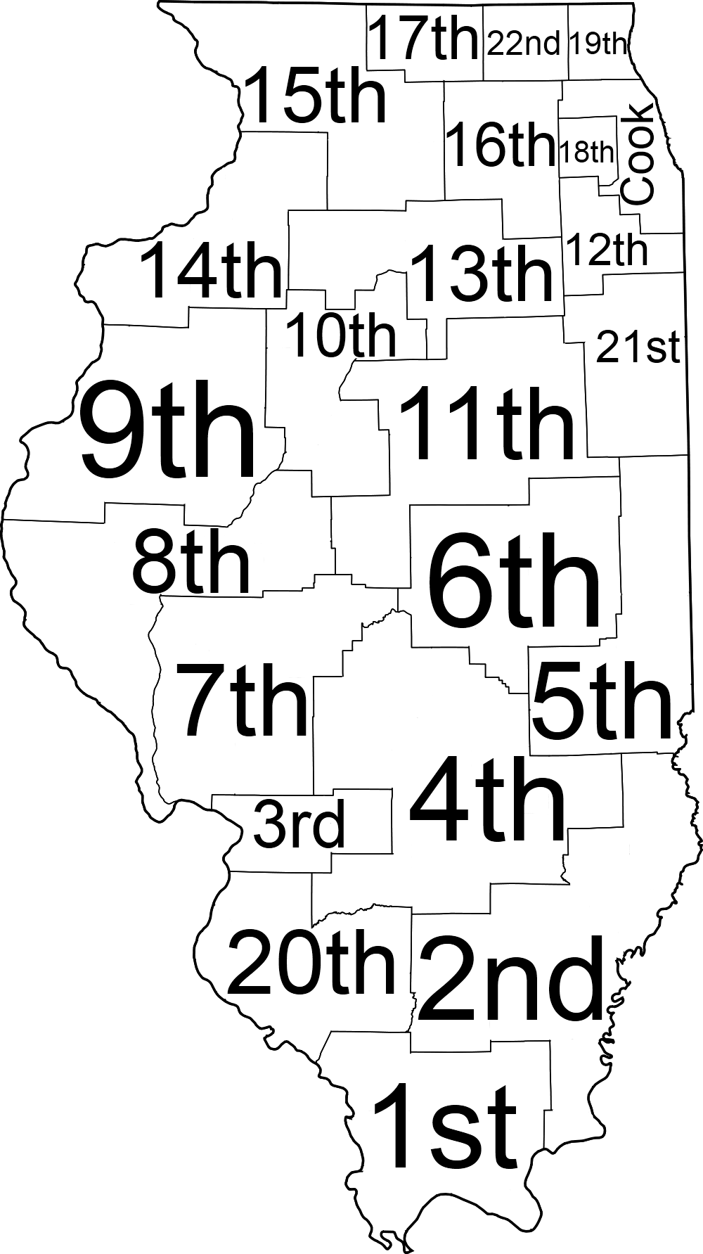 Map of Illinois judicial circuits (does not show 23rd Circuit, which comprises DeKalb and Kendall Counties